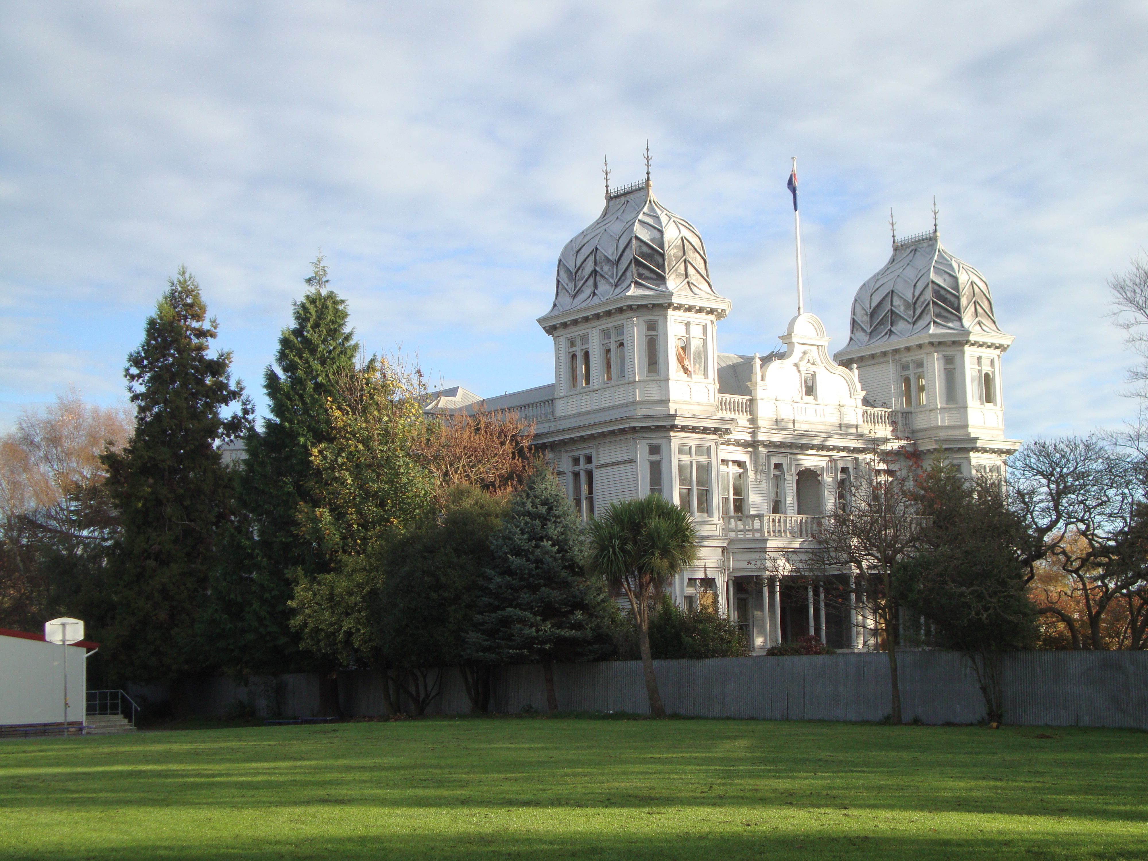 McLean's Mansion in May 2011, seen from Manchester Street.